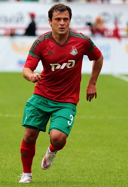 Alan Kasaev